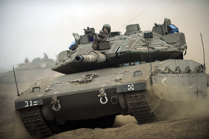 Merkava Mk. IV with TROPHY (Active Protection System) during 401st Armored Brigade training